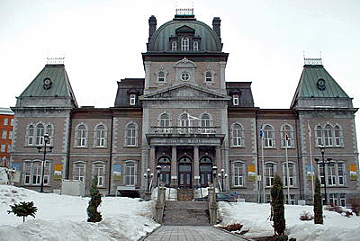 City hall of Sherbrooke (Quebec, Canada) on 2004.